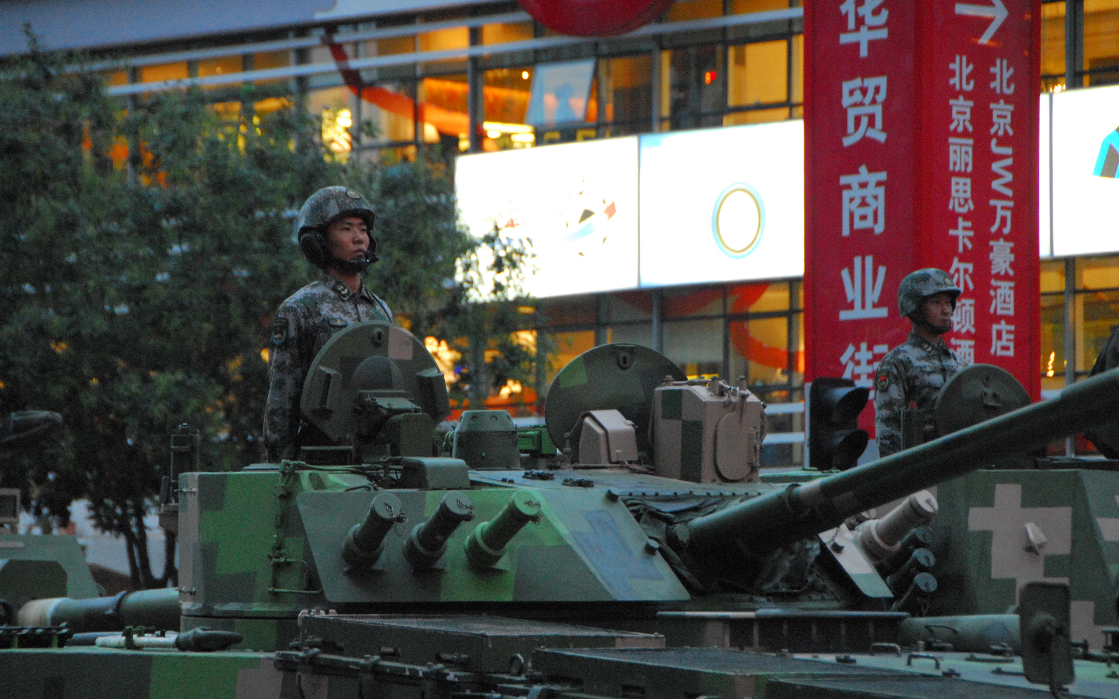 Training exercise for the military parade scheduled for October 1 2009, to celebrate China's 60th Anniversary. The tanks rolled down Xidawang Lu in Chaoyang district in the east side of central Beijing past the luxurious shopping centre Shin Kong Place.